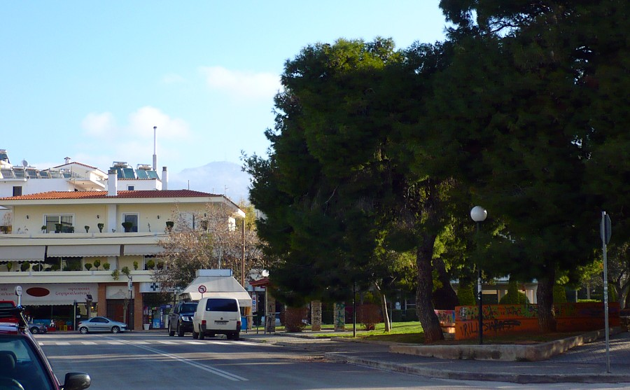 makedonias-vrilissia